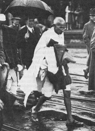 Gandhi walking under the rain after landing at Folkstone (UK), September 12, 1931.